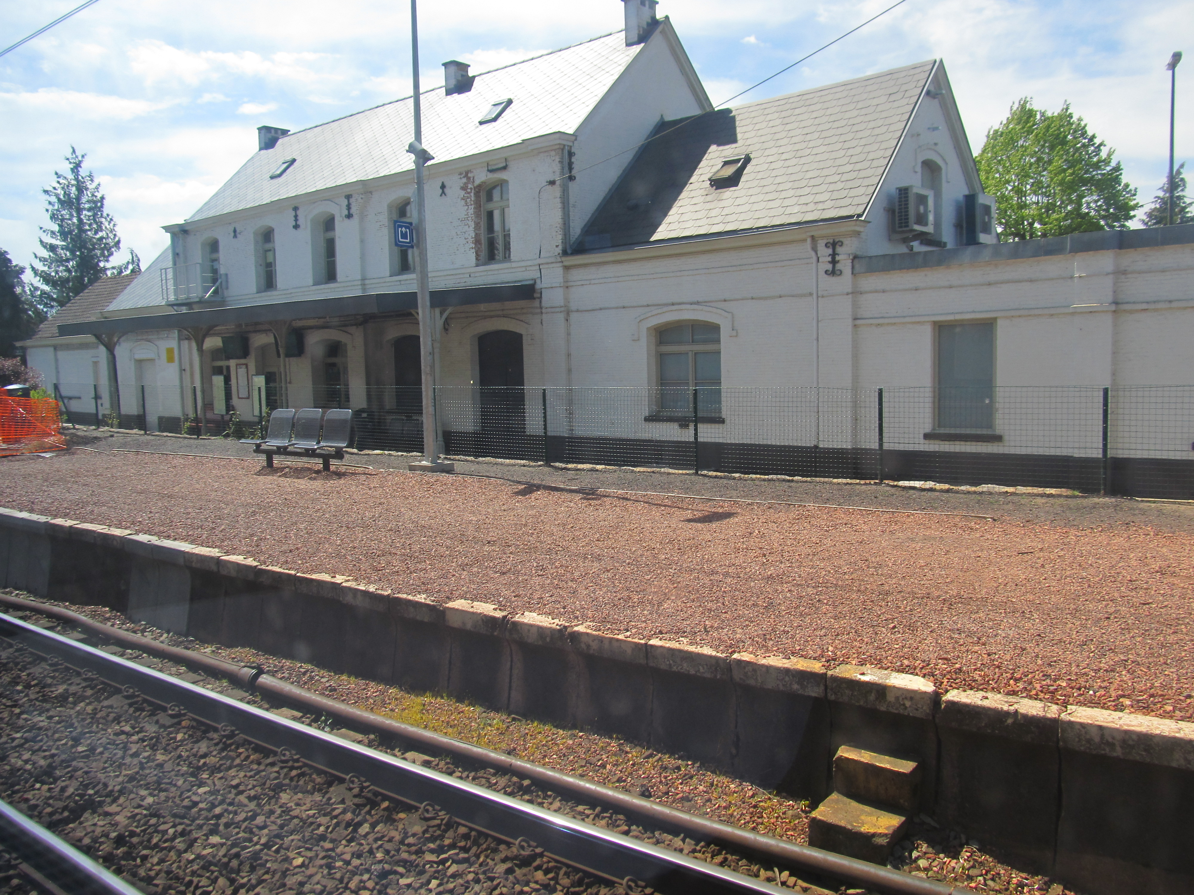 Sint-Genesius-Rode/Rhode-Saint-Genèse train station on 30 April 2017.